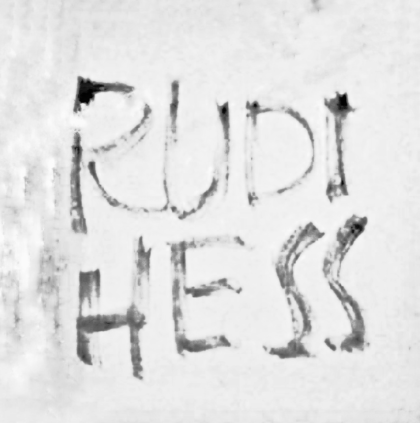 Artist Rudi Hess signature from the back of oil painting